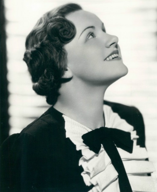 Publicity photo of actress Virginia Payne for the radio program Ma Perkins.